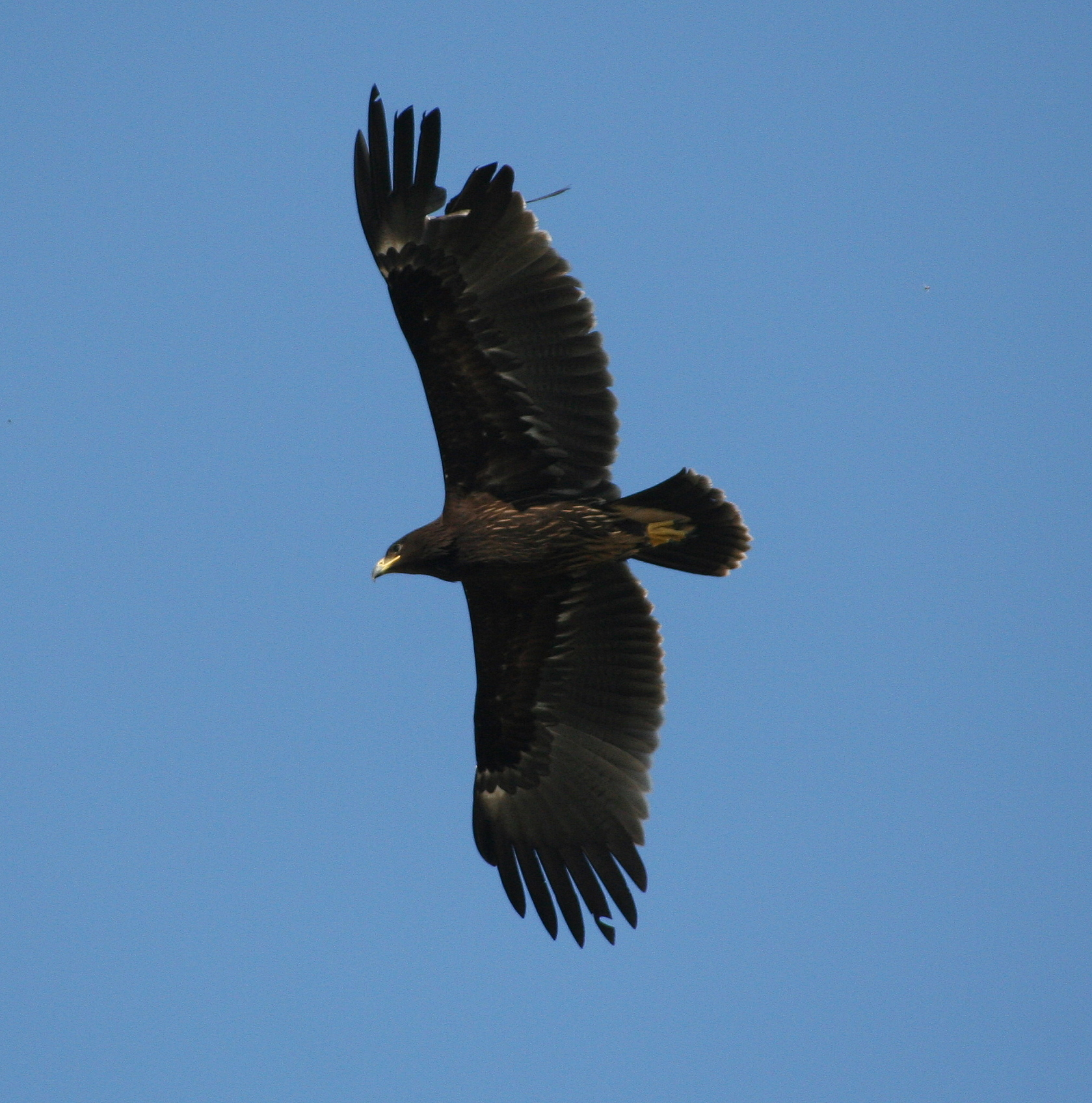 Greater_spotted_Eagle_(_Aquila_clanga)